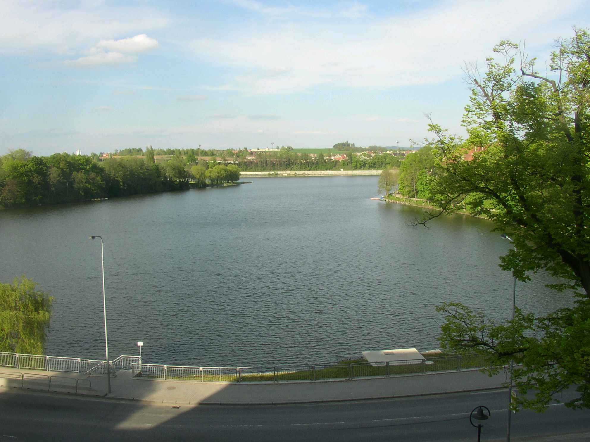 The Jordán Pond (rybník Jordán) in Tábor, Czech Republic Photo taken by Miaow Miaow in May 2005